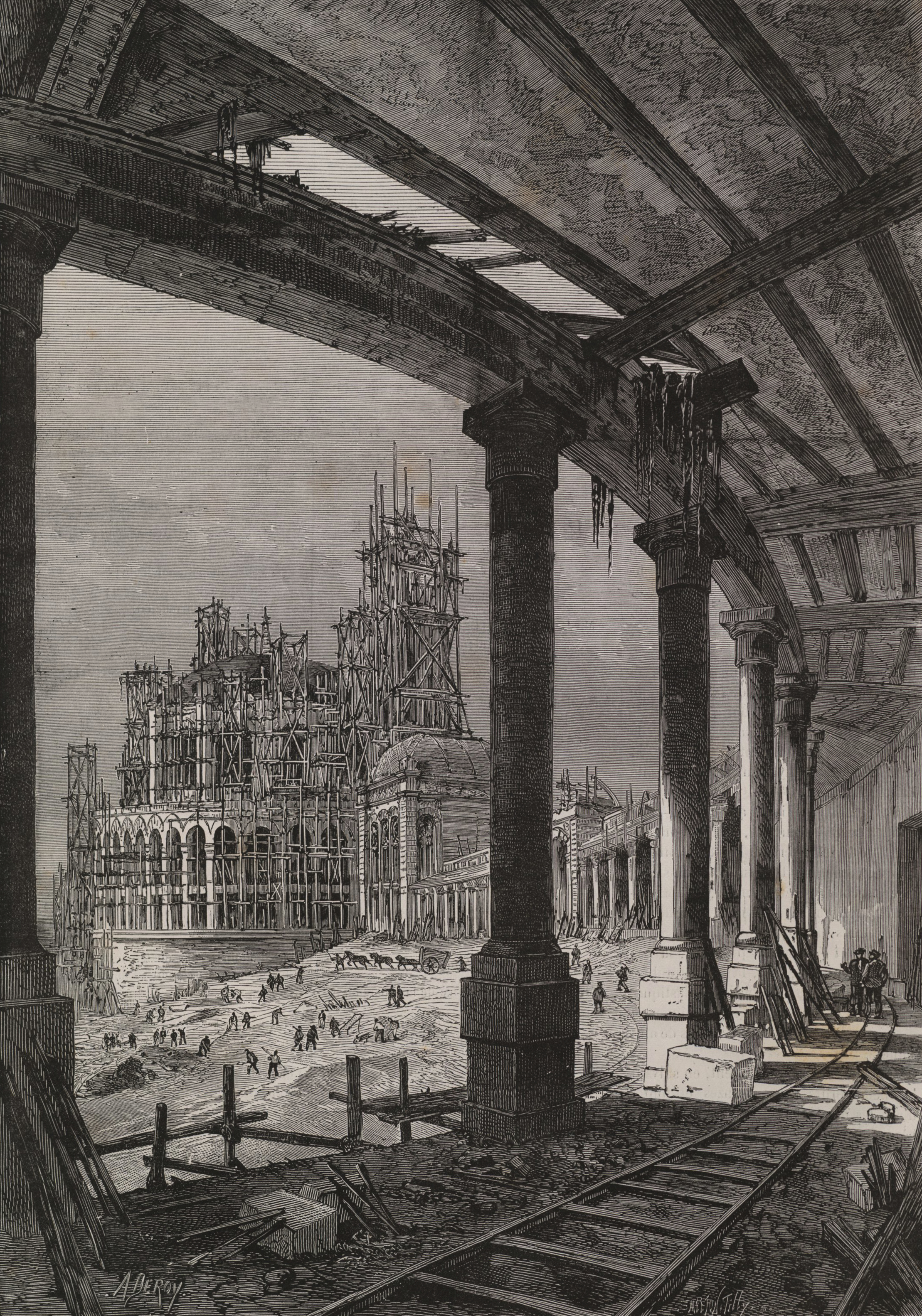 The Palais du Trocadéro in construction, before the 1878 Paris World Fair. The Trocadéro had been designed specifically for the 1878 fair by the architects Davioud and Bourdais. The building had three parts: the monumental central rotunda, framed by two minaret-like towers, served as a reception and concert hall which could contain about 5000 people. Two galleries on each side went from the rotunda to the outside of the building, and were inspired by St Peter's Piazza in Rome. The Palais was eventually damaged by a fire in 1935, and does not exist anymore today.